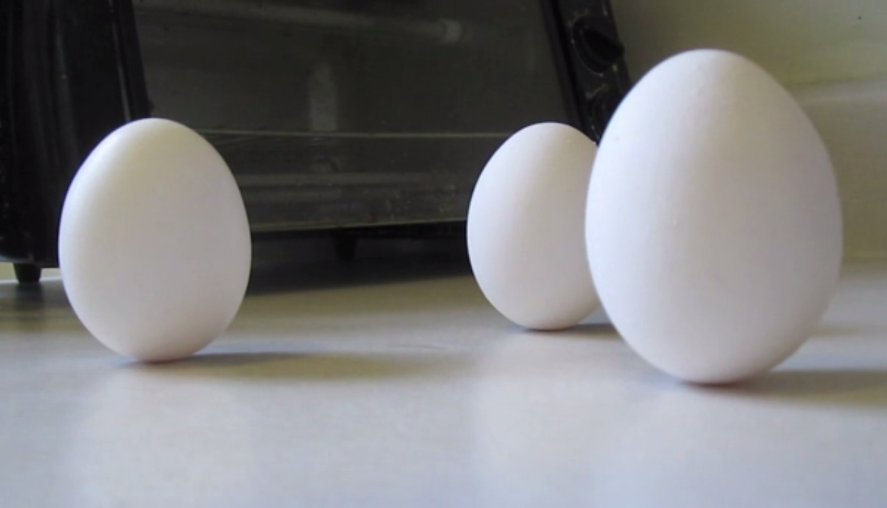 A friend told me you can only balance eggs on vernal equinox... well... that's a myth, you can balance eggs any day you want. But I decided to make a video balancing eggs on this lovely day of vernal equinox.